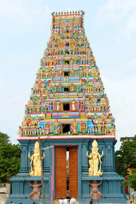 Nainativu Rajaraja Gopuram